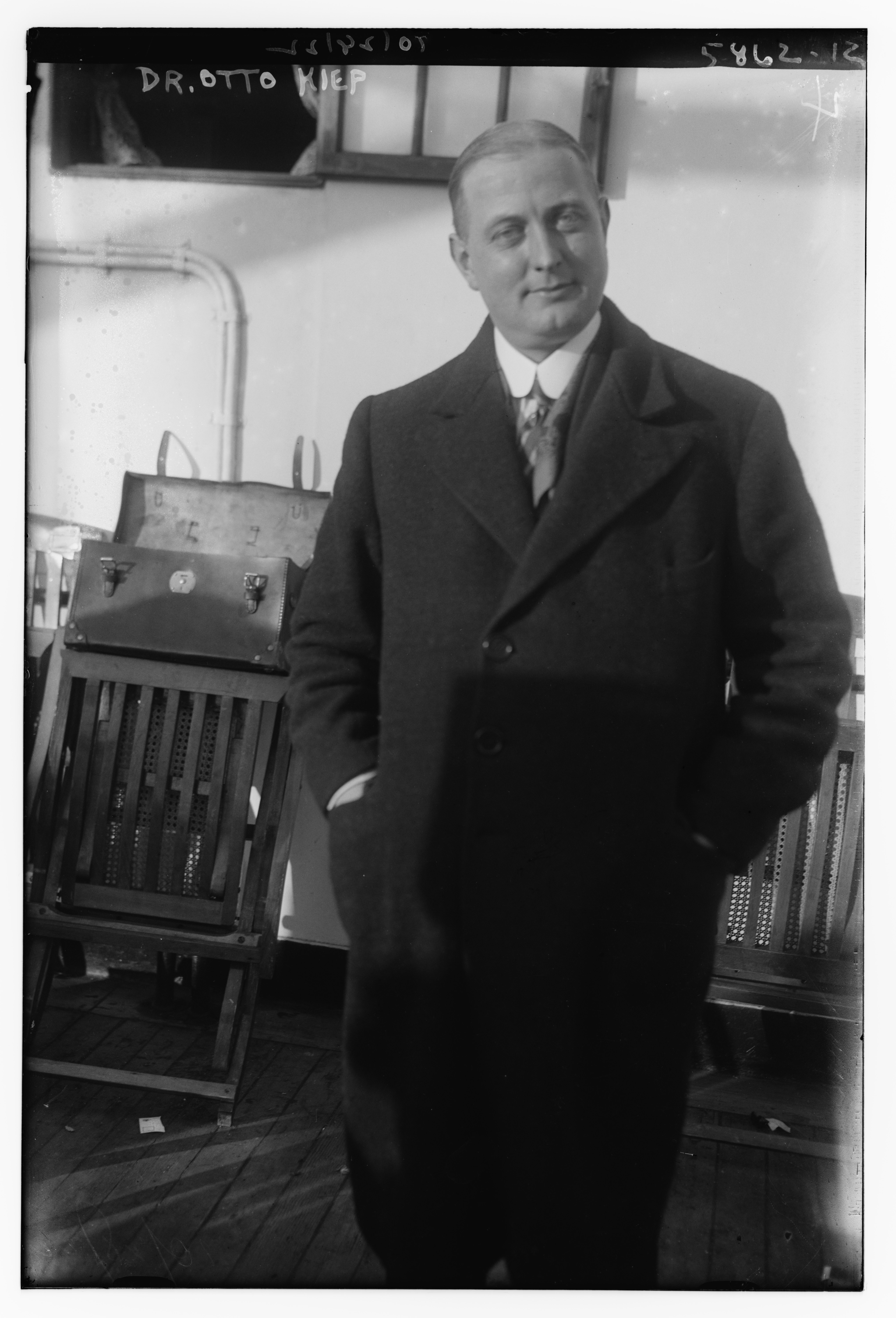 Title: Dr. Otto Kiep Abstract/medium: 1 negative : glass ; 5 x 7 in. or smaller.